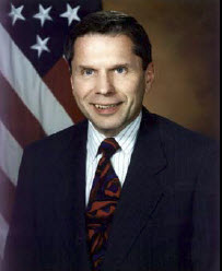 Kenneth J. Oscar